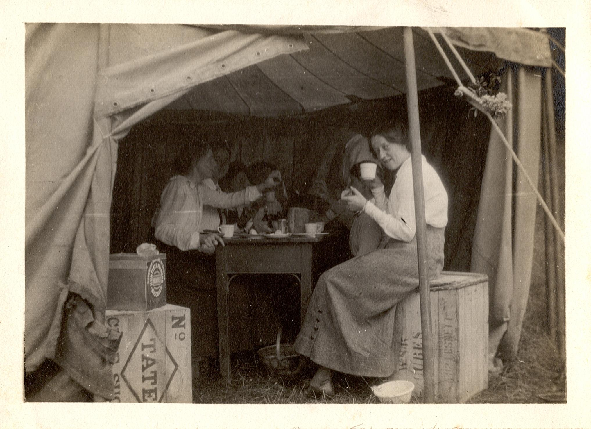 Women's pilgrimage - Camp breakfast at lady Willoughby de Brook's Kineton 18 July 1913